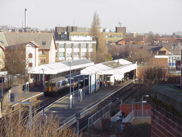 Kingston railway station. Seen from the top of the Bentalls car park